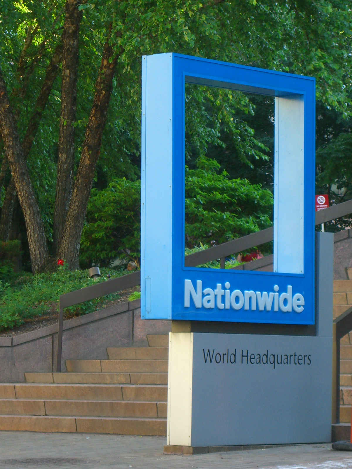 One Nationwide Plaza. Photo by Nick Juhasz.